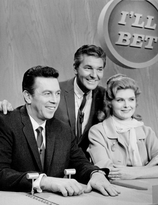 Photo of host Jack Narz with actress Patricia Blair and her husband, Martin Colbert, at the premiere of the television game show, I'll Bet.